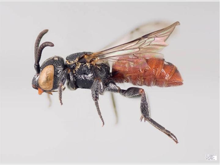 Holcopasites calliopsidis female